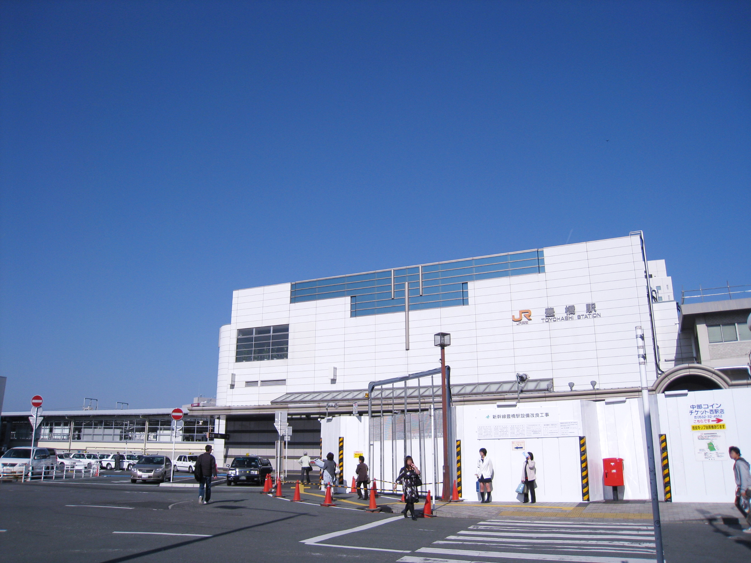 Toyohashi Station (豊橋駅), located in Toyohashi, Aichi, Japan